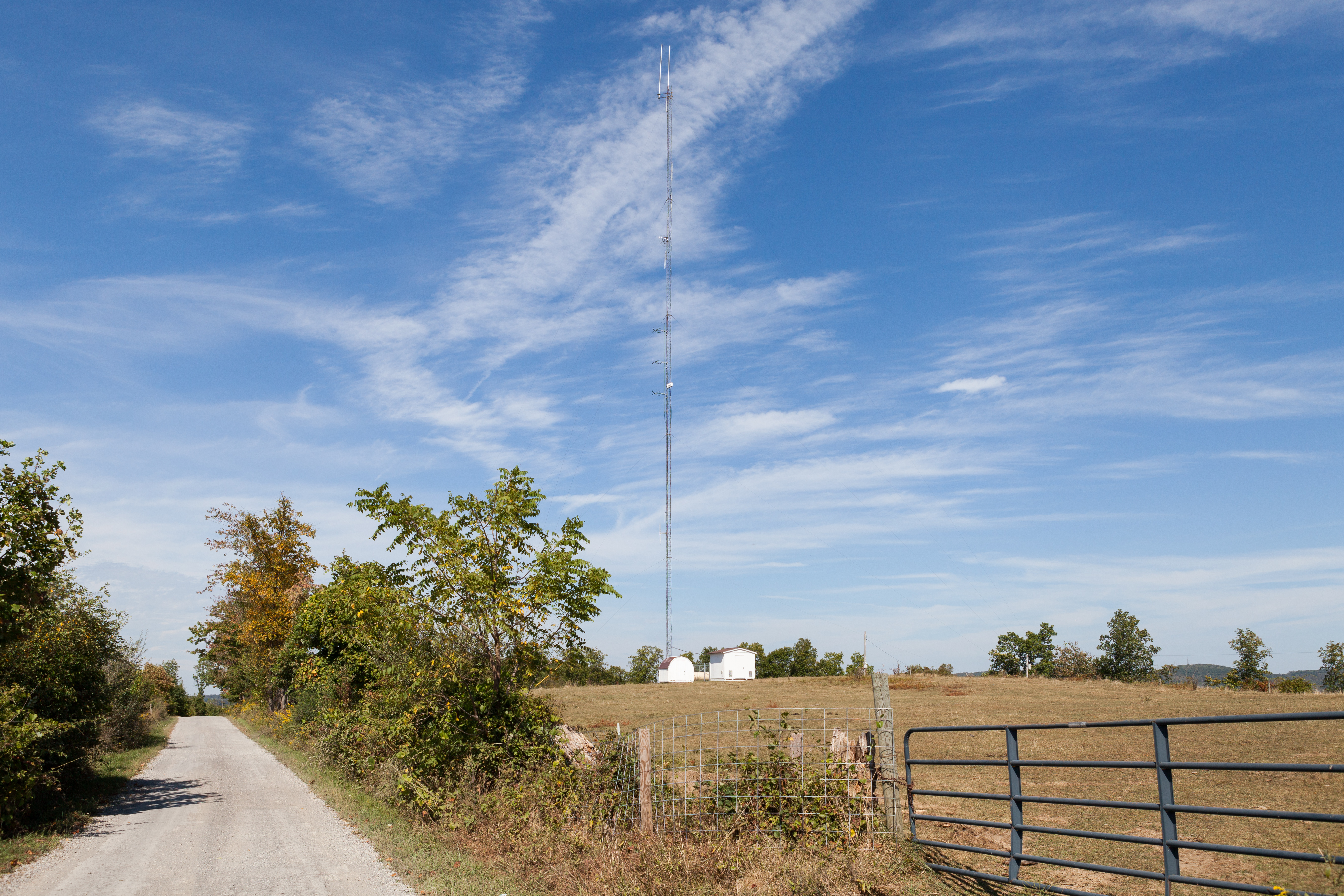 Tower for WFGM-FM, east of Fairmont, West Virginia on Mudlick Run Road. WFGM's antenna is about half way up the tower.